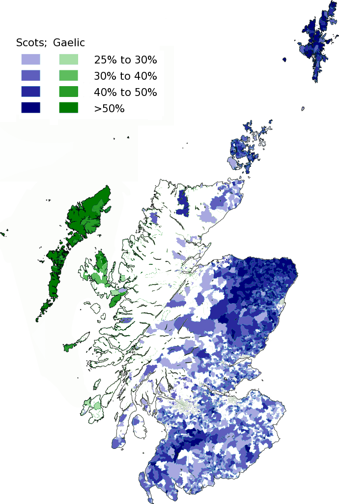 The proportion of respondents in the 2011 census aged 3 and above who stated that they can speak either Scots or Scottish Gaelic. No areas have a proportion as high as 25% for both. Gaelic data refined with some from 2001 census.